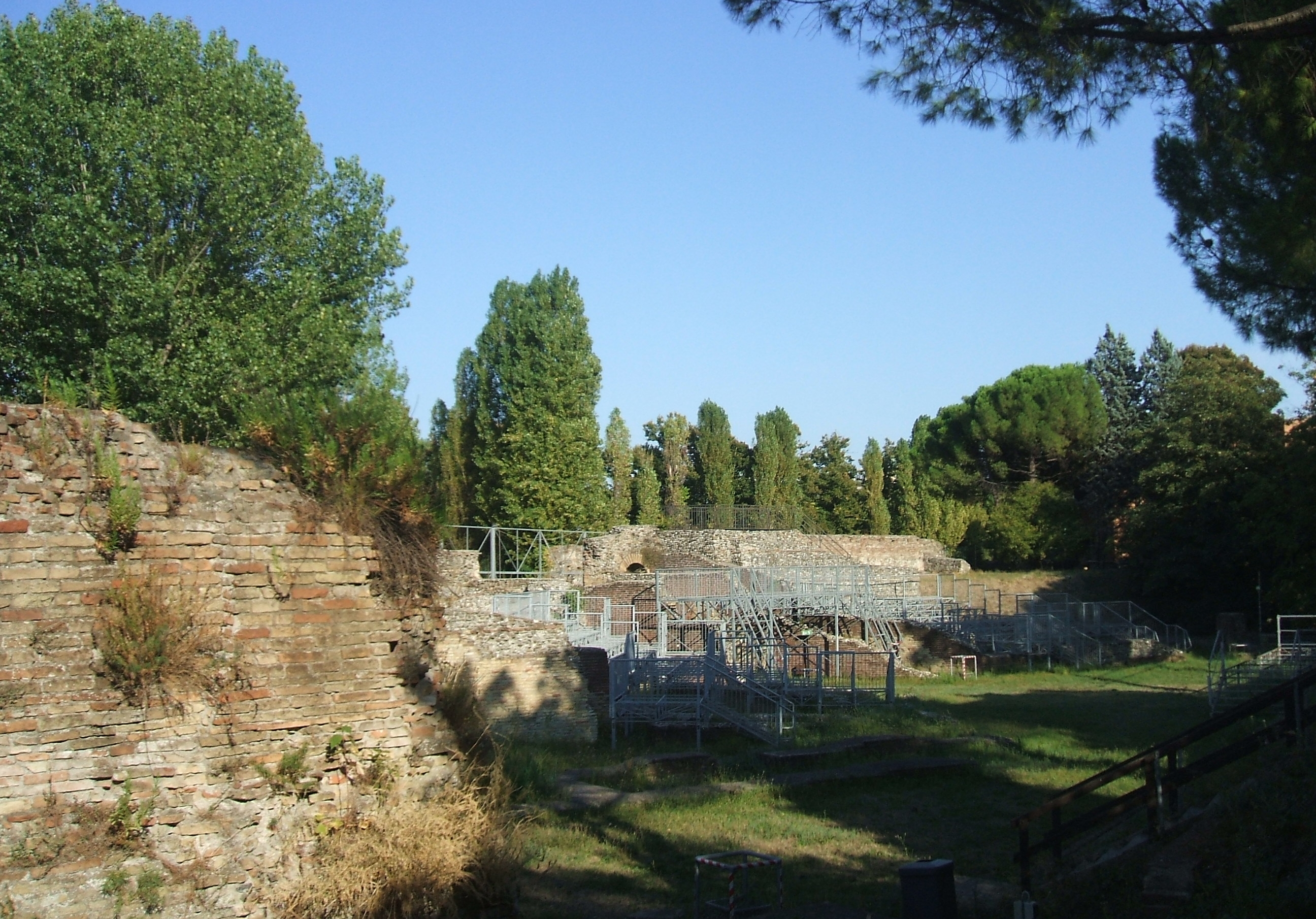 Roman amphitheatre in Rimini, Italy